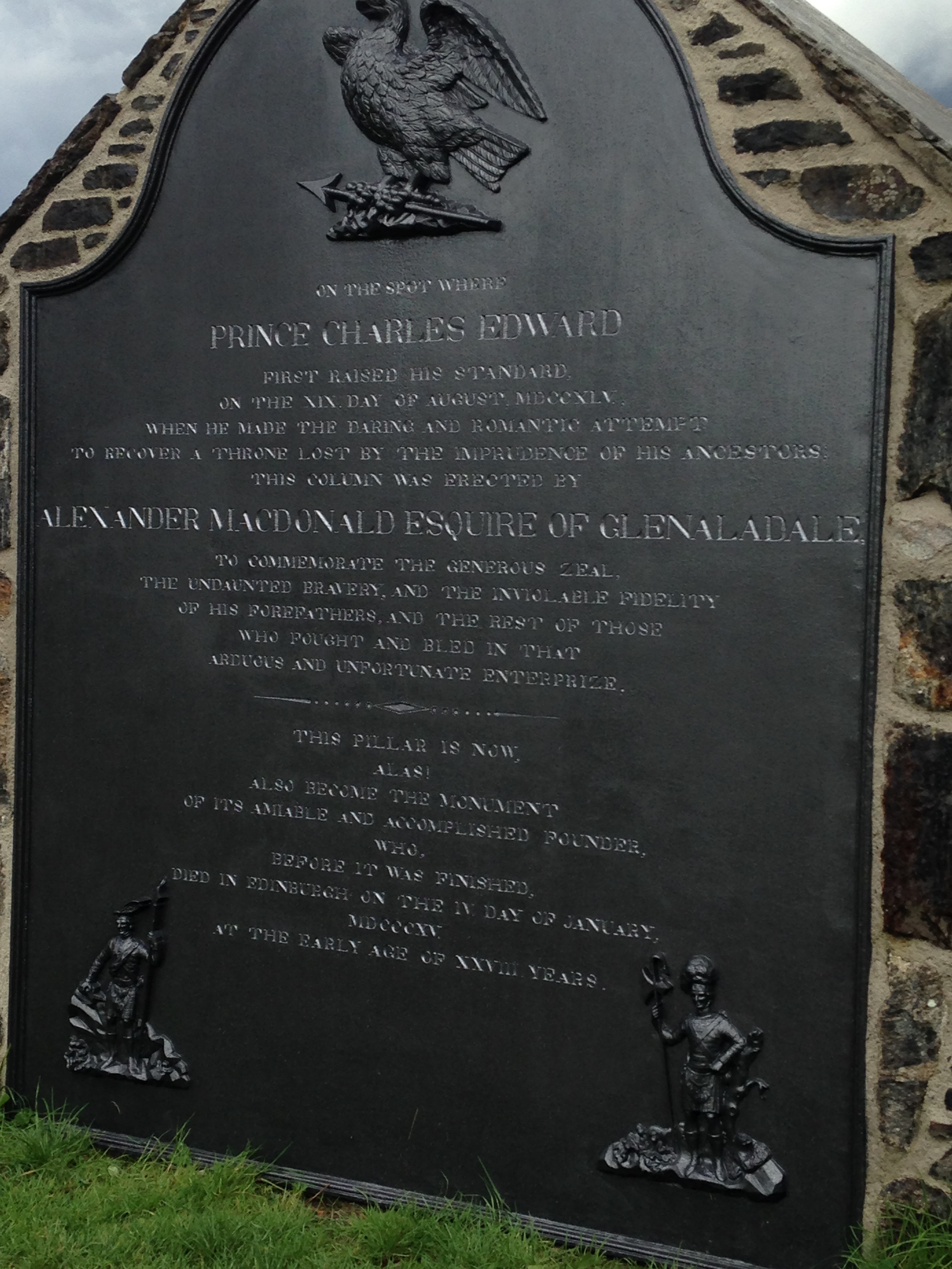 glenfinnan infopanel